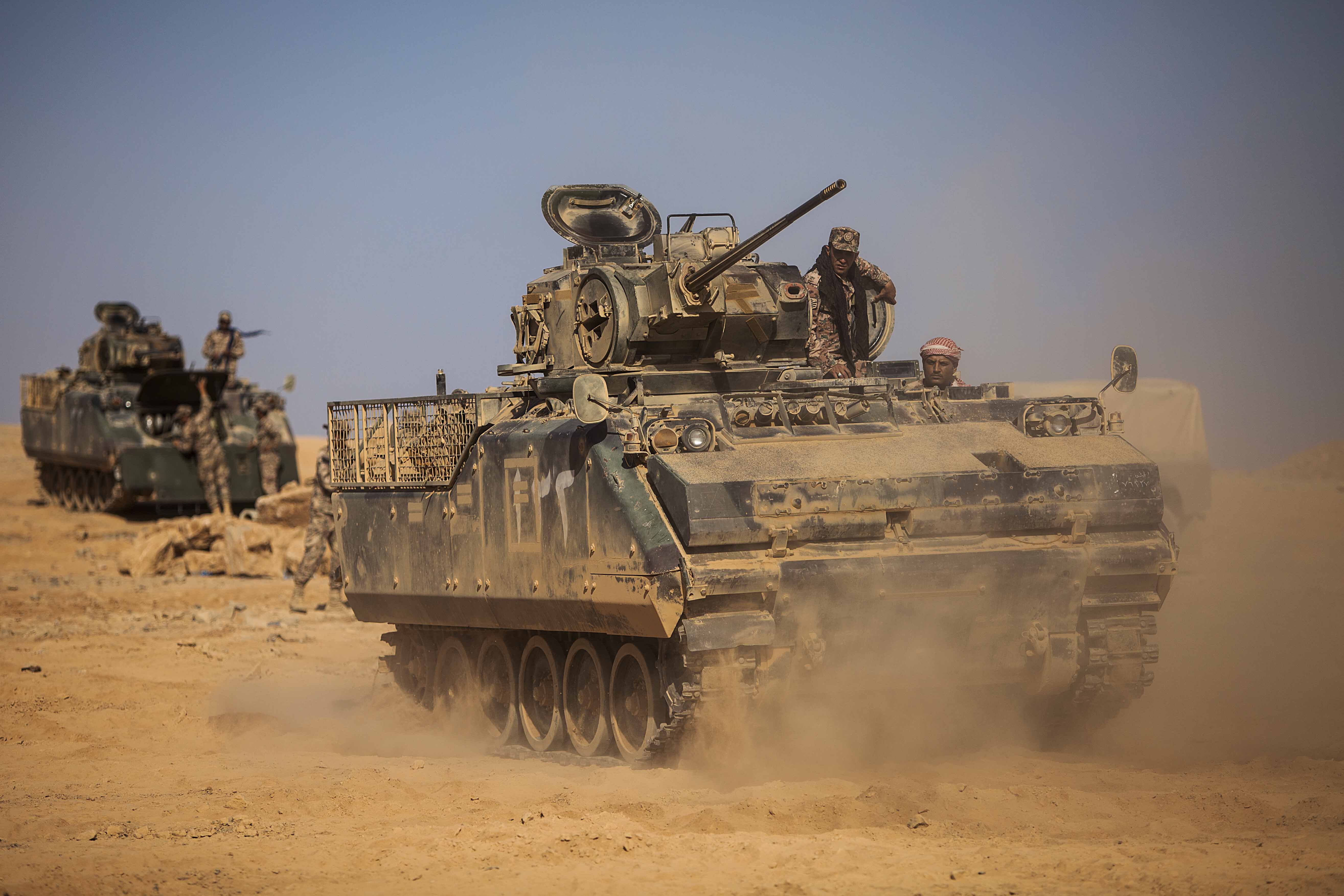 JEBEL PETRA, Jordan (May 29, 2014) A Jordanian Armed Forces YBR-765 armored personnel carrier repositions during a live-fire range as part of Exercise Eager Lion 2014. Eager Lion is a recurring, multinational exercise designed to strengthen military-to-military relationships, increase interoperability between partner nations and enhance regional security. (U.S. Marine Corps photo by Sgt. Austin Hazard/Released)